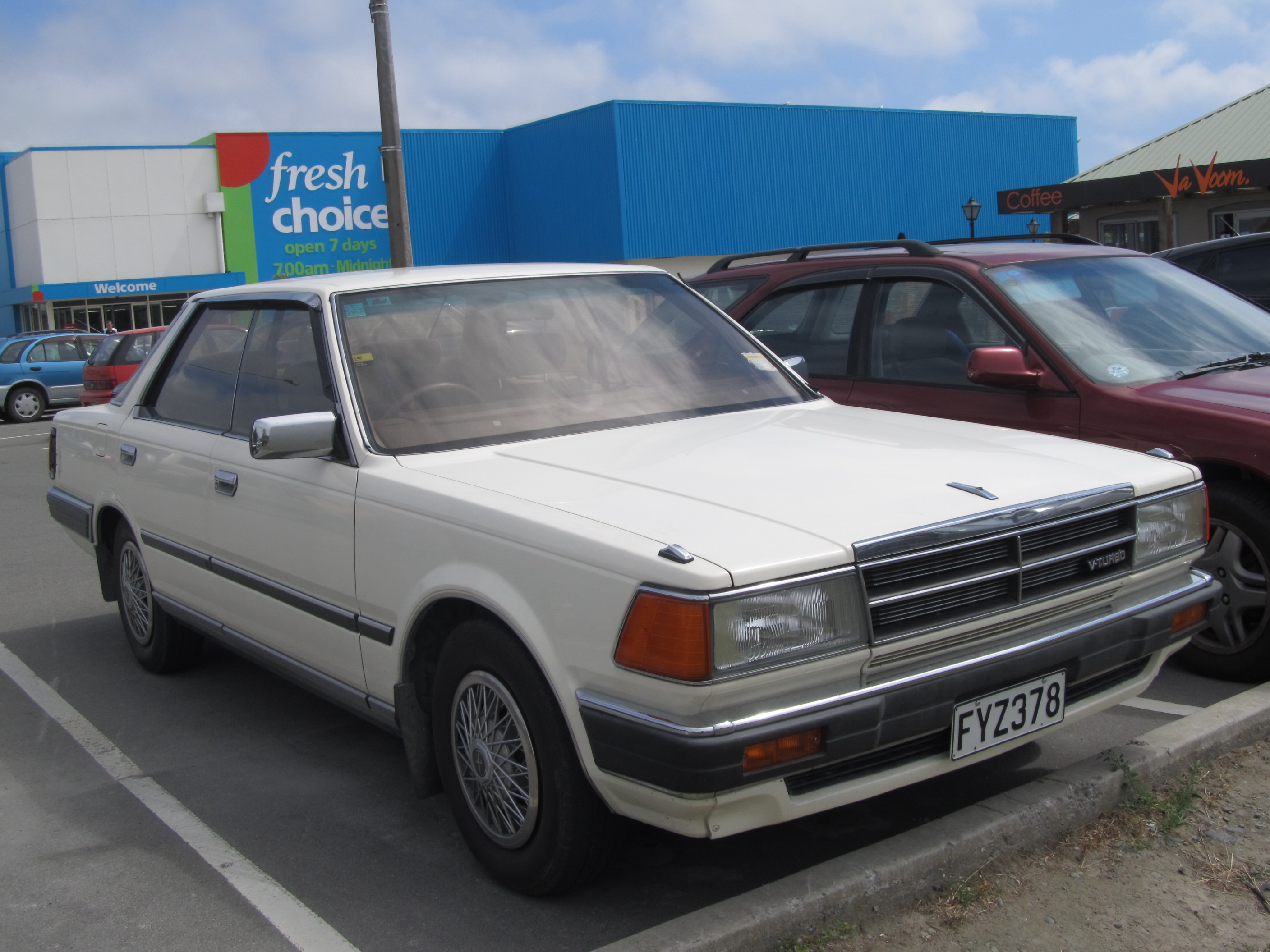 1983 Nissan Gloria Brougham, photographed in New Zealand.